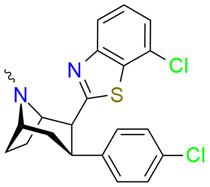 PMID: 16584128